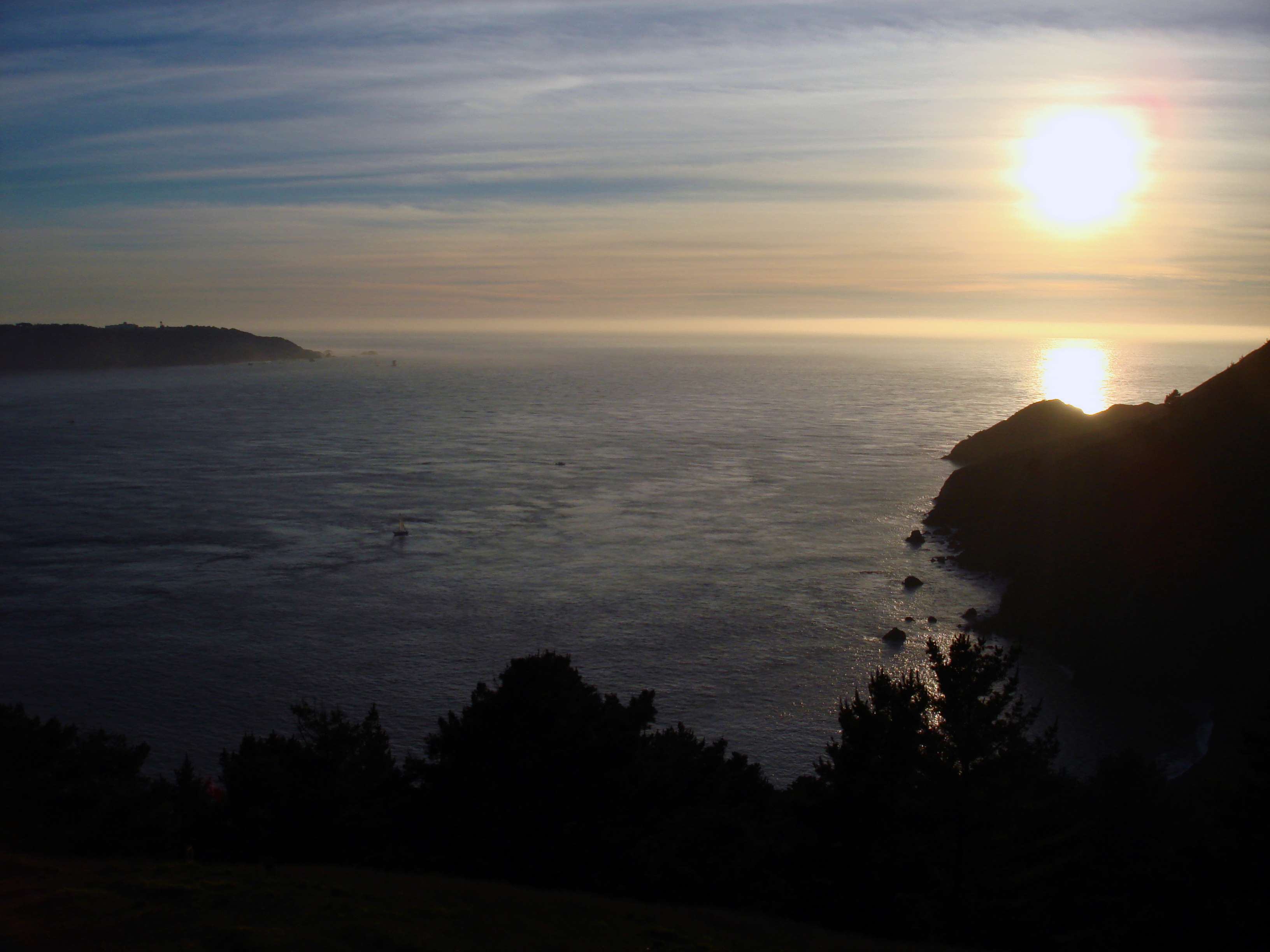 The Golden Gate in San Francisco, CA at sunset.